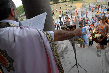 Hetan priest officiating ceremony at the Temple of Vahagn in Garni, Armenia.